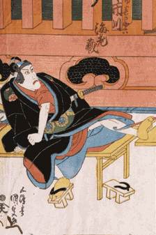 Ebizō Ichikawa V as Sukeroku in Sukeroku Yukari no Edozakura, by Kunisada Utagawa.